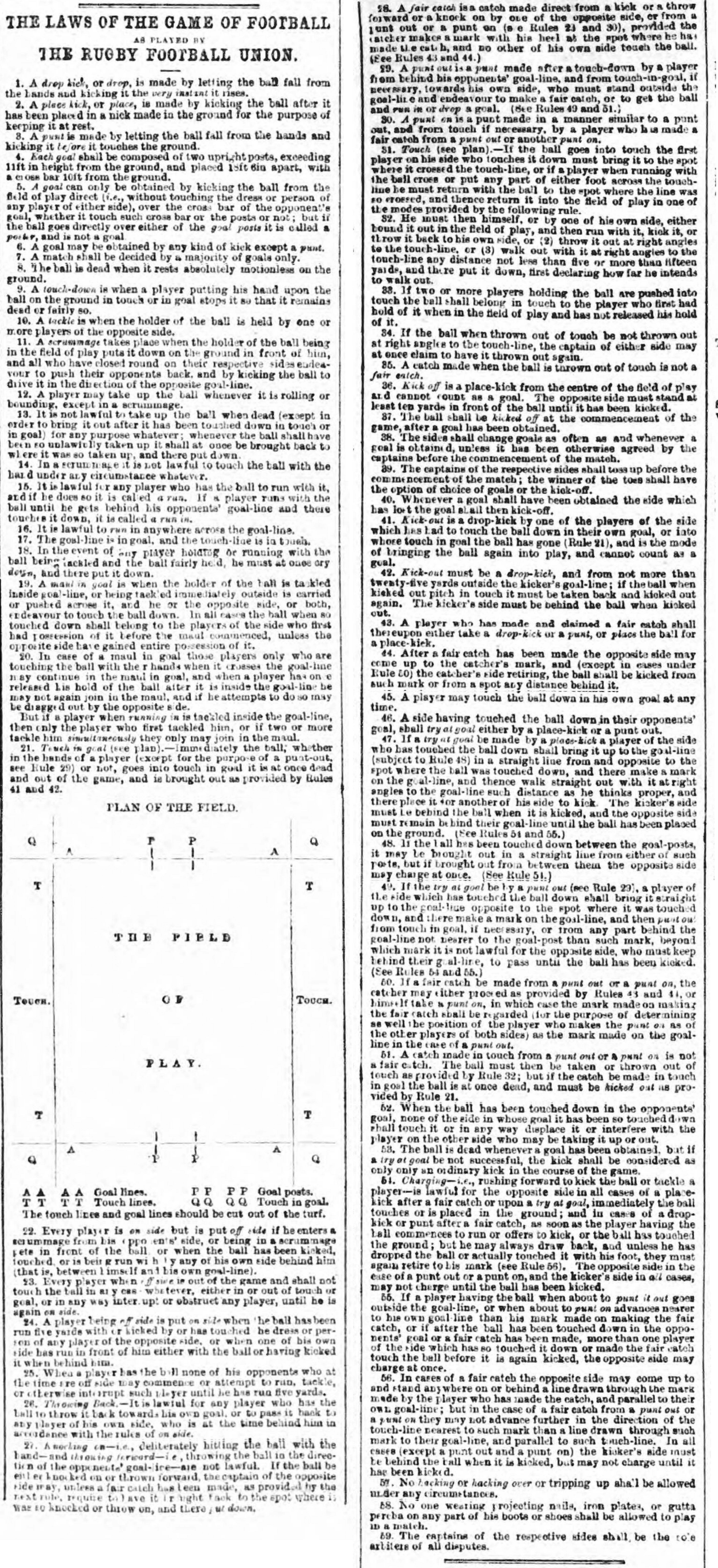 "The Laws of the Game of Football" as played by the Rugby Football Union"., published on August 3, 1871